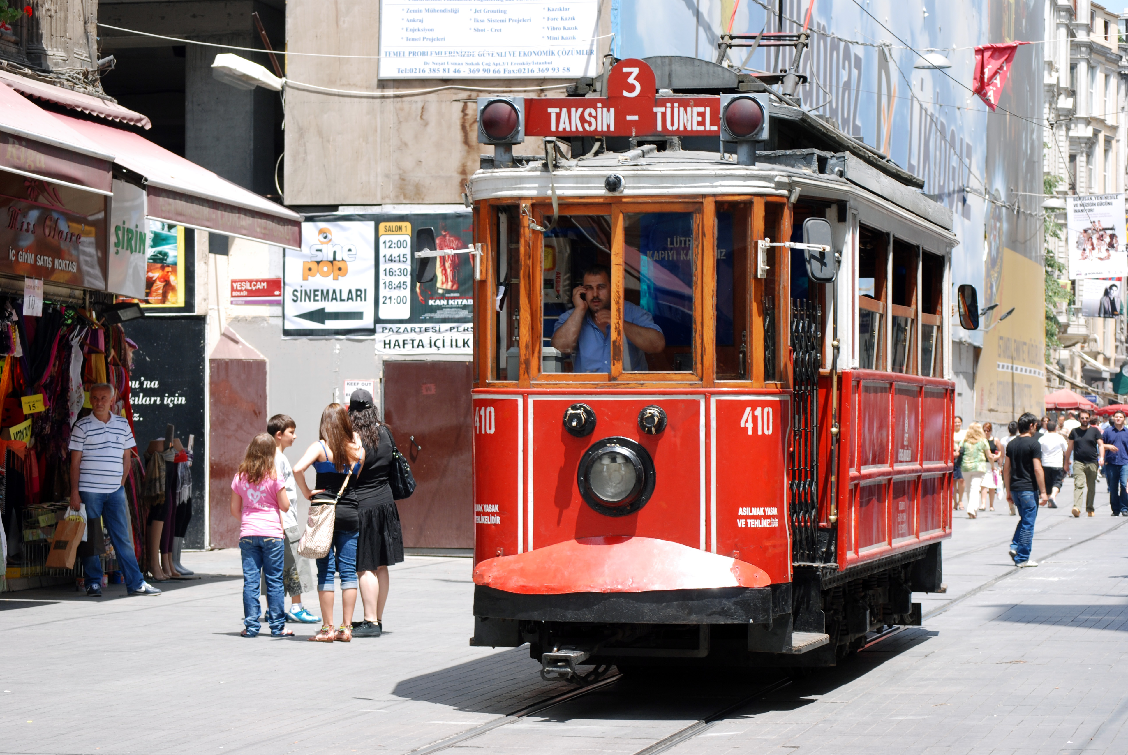 Istiklal Caddesi (Independence Avenue) is the heart of Beyoglu, the more modern district of Istanbul built during the 19th century, now reserved for pedestrians